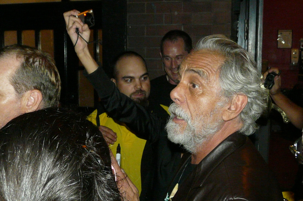 Tommy Chong happy after one of his Reunion Shows outside of Massey Hall during TIFF '08 Check out even more great Tiff Photos and Videos at